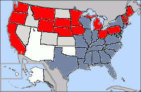 Election USA 1892 results by state